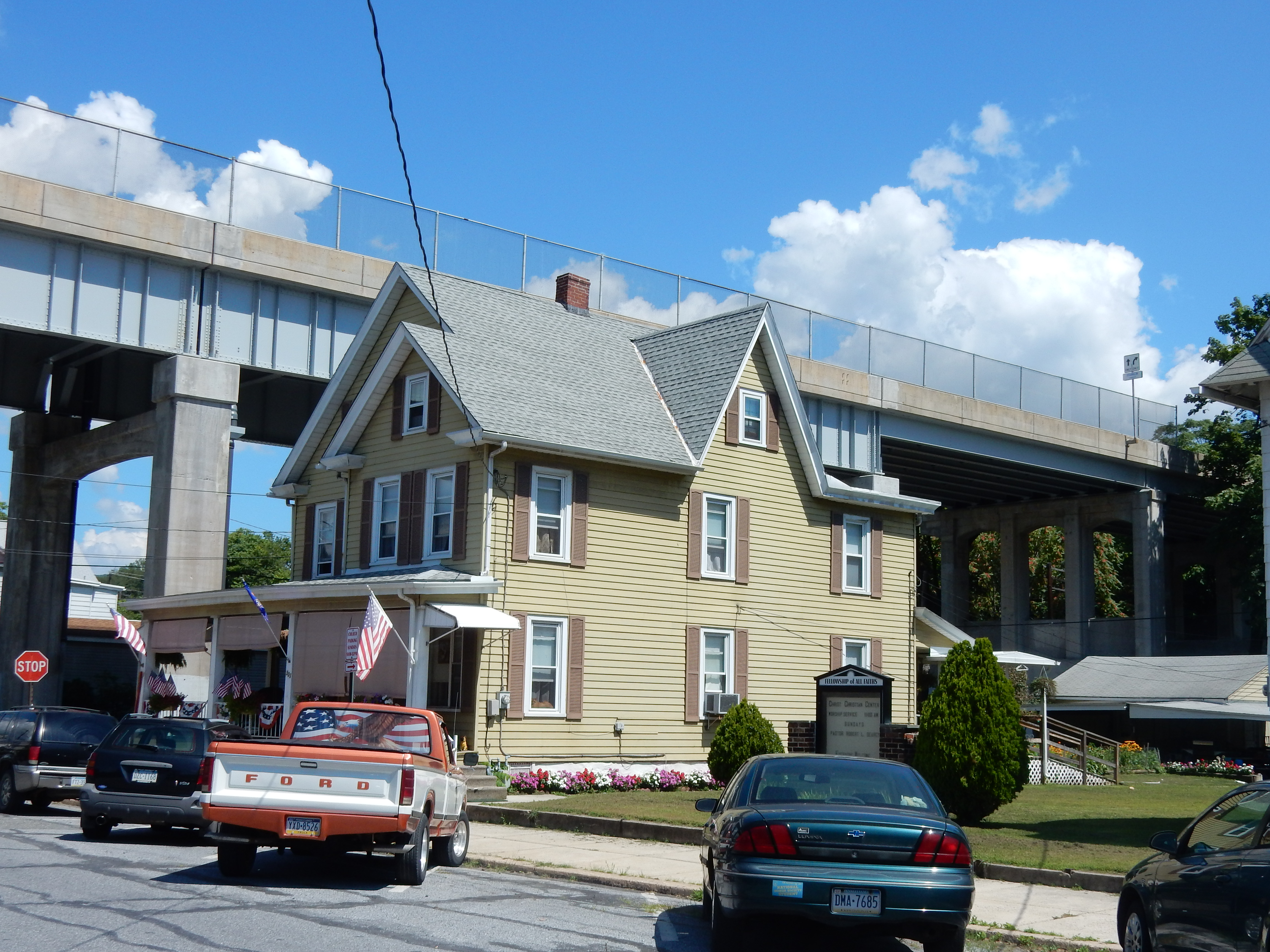 Residence on 303 White St., Weissport, Carbon County, Pennsylvania.